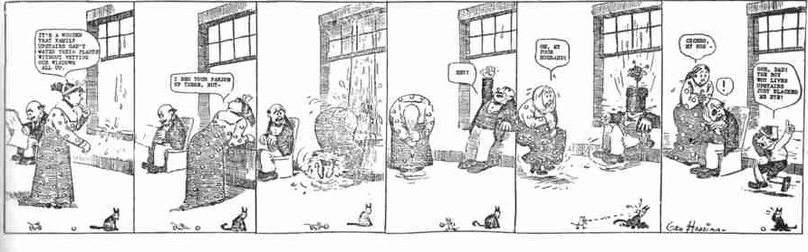 (current image version only the strip of 26 july) strip of the Family Upstairs by Gerge Herriman : Wed, 27 Jul 1910, & Tue, 26 Jul 1910 with the first official appearance of Krazy Kat ,Ignatz Mouse & your flying brick(bottom of strip).